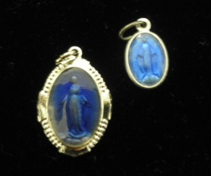 Miraculous Medal bought at the wonderful The Miraculous Medal church